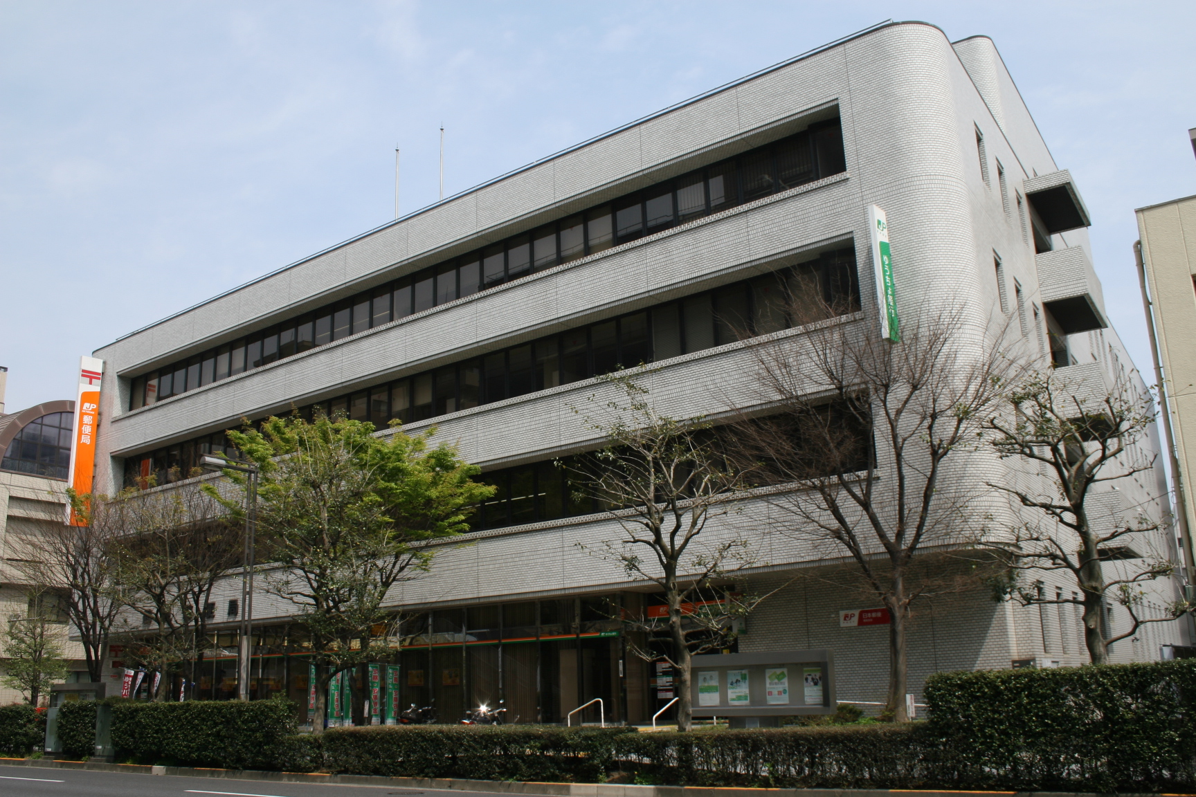 Tsurumi Post Office in Tsurumi-ku, Yokohama, Japan